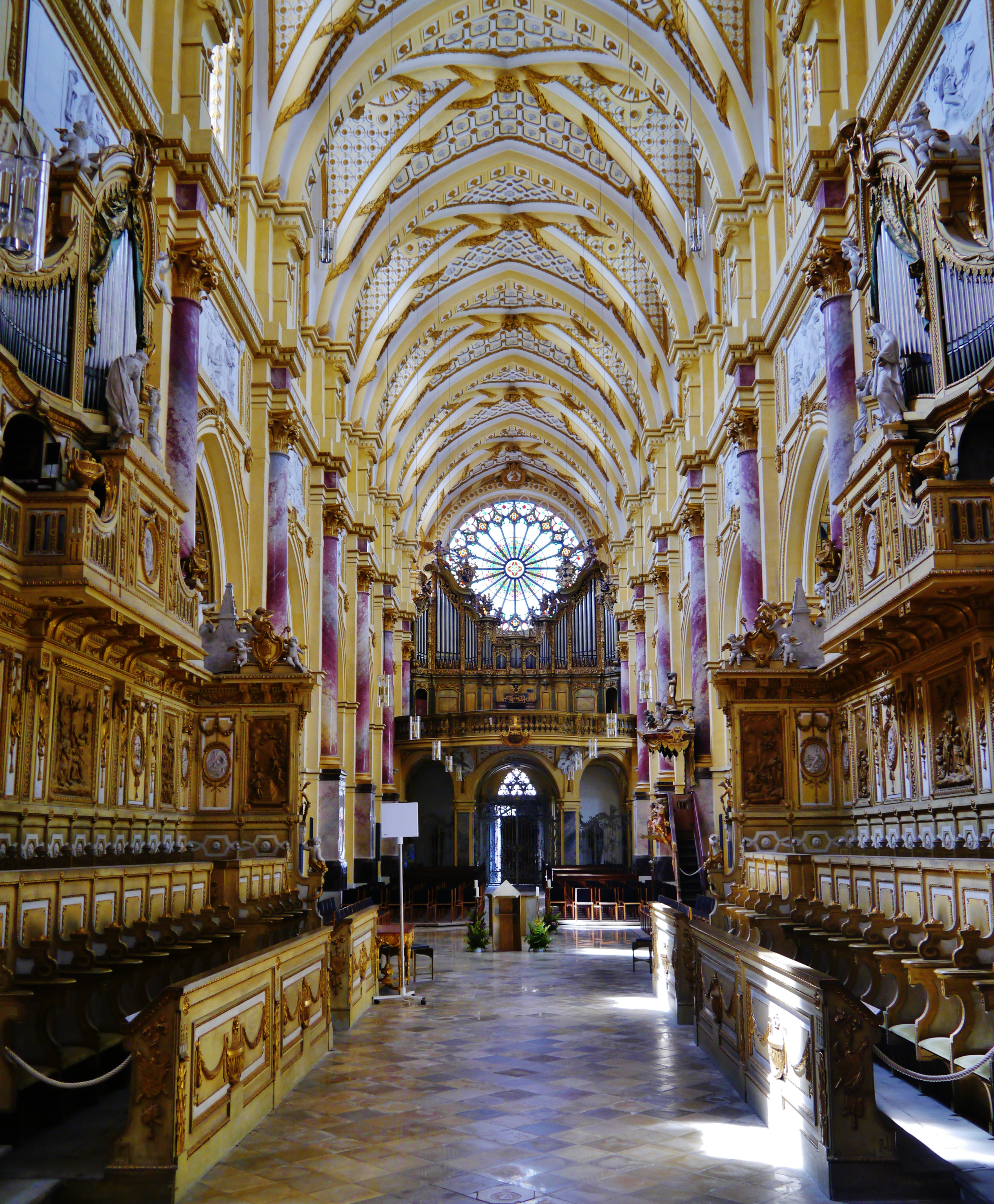 Nave of Ebrach Monastery Church, Ebrach, Bavaria, Germany